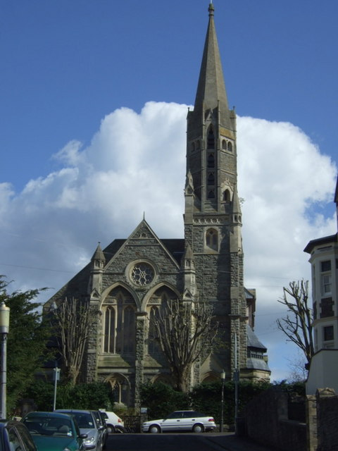 David Thomas House, Belmont Road, Bristol, England, seen from the northwest. The facade, west tower and spire are all that remain of a Congregational church built in 1878 and named after Rev. David Thomas (1811–75), a Congregational minister who came to Bristol from Merthyr Tydfil, Wales. In 1981 the rest of the church was demolished and replaced with a five-storey block of sheltered housing.